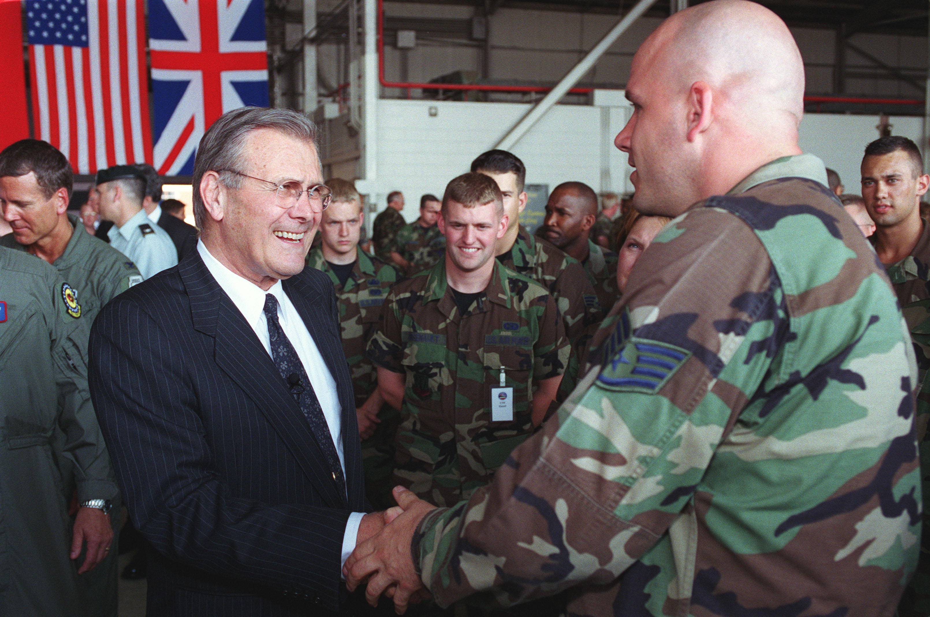 Secretary of Defense Donald H. Rumsfeld greets a U.S. Air Force staff sergeant serving with Combined Task Force Northern Watch at Incirlik Air Base, Turkey. Rumsfeld stopped at Incirlik on June 4, 2001, to receive detailed briefings from the Task Force Co-commander Brig. Gen. Edward "Buster" Ellis and his staff and to visit with service personnel of the U.S., Turkey, and the United Kingdom who make possible the patrols of the no-fly zone in northern Iraq.